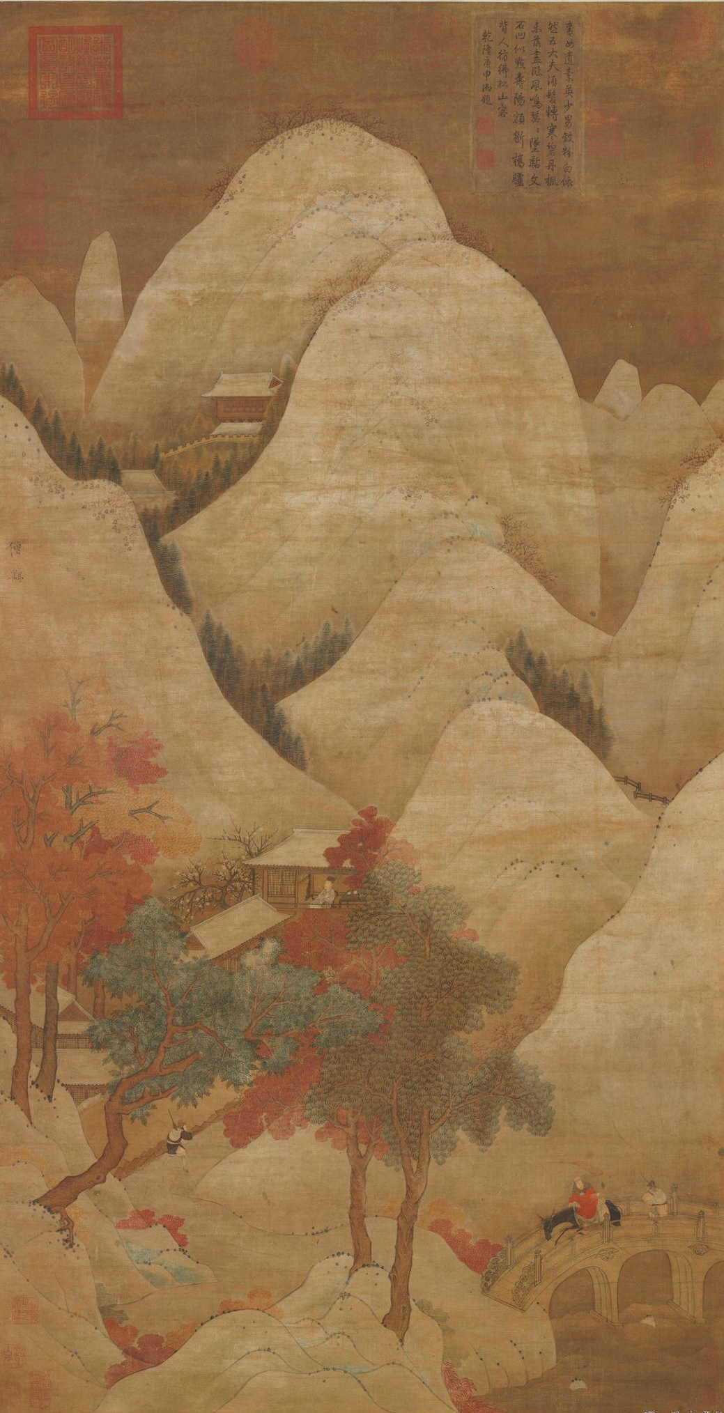 Zhang Sengyao, Snowy mountains, red trees. Ming copy, National Palace Museum, Taipei. Chang Seng-yu excelled at rendering the illusion of three-dimensional forms, and his painting style shows traces of foreign influence. In this work, amid snow-covered mountains, a man is seated in his studio and leans on a balustrade. Guests approach over a bridge, one mounted on a donkey. The silvery white of the snowy mountains and the red and green leaves of the trees are vibrant. Although the artist's signature, Seng-yu, appears on the left side of the painting, it was perhaps executed by an artist in the late Ming (1368-1644).This work in light ink outlining the forms eschews texture methods but adds shades of blue-green, vermilion, and powdery white. The repeated bun-shaped mountains reveal an archaic simplicity. This painting was originally titled as by the Six Dynasties artist Zhang Sengyou (fl. first half of 6th c.). According to Tang and Song dynasty sources, Zhang specialized in Buddhist and Taoist wall painting using foreign “convex-concave” decorative methods. However, many “Zhang Sengyou” works in the late Ming dynasty were landscapes in the “boneless” wash method, and were imitations done by such painters as Dong Qichang and Lan Ying. Perhaps this work is also a careful yet imaginative view of Zhang Sengyou’s painting style from the late Ming.